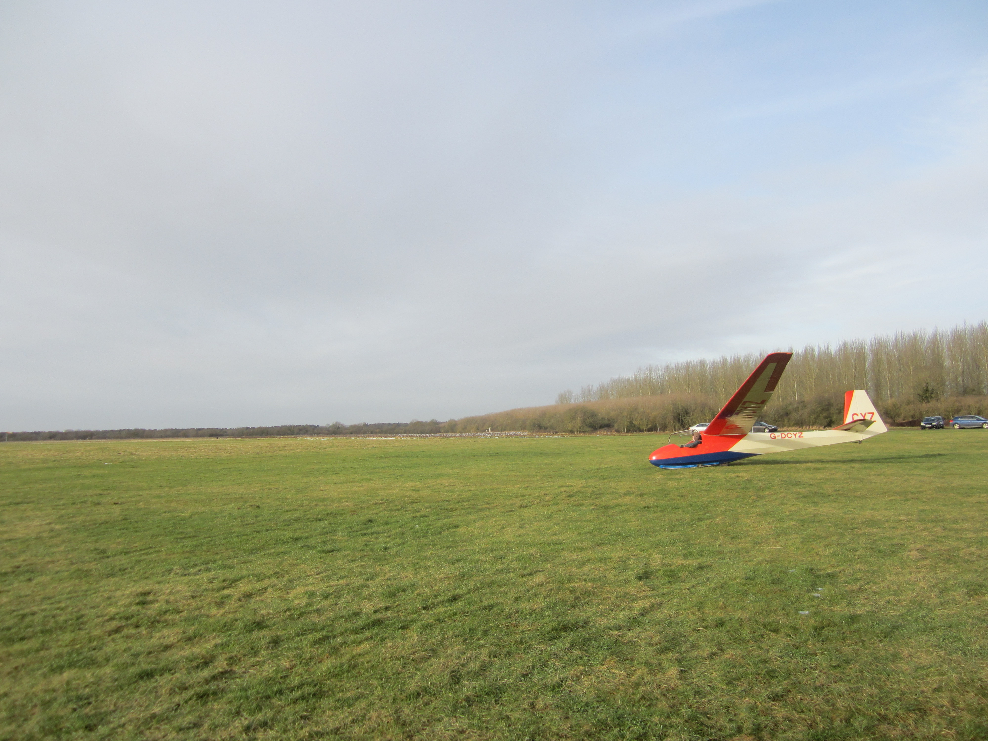 The oxford Gliding Club K8b